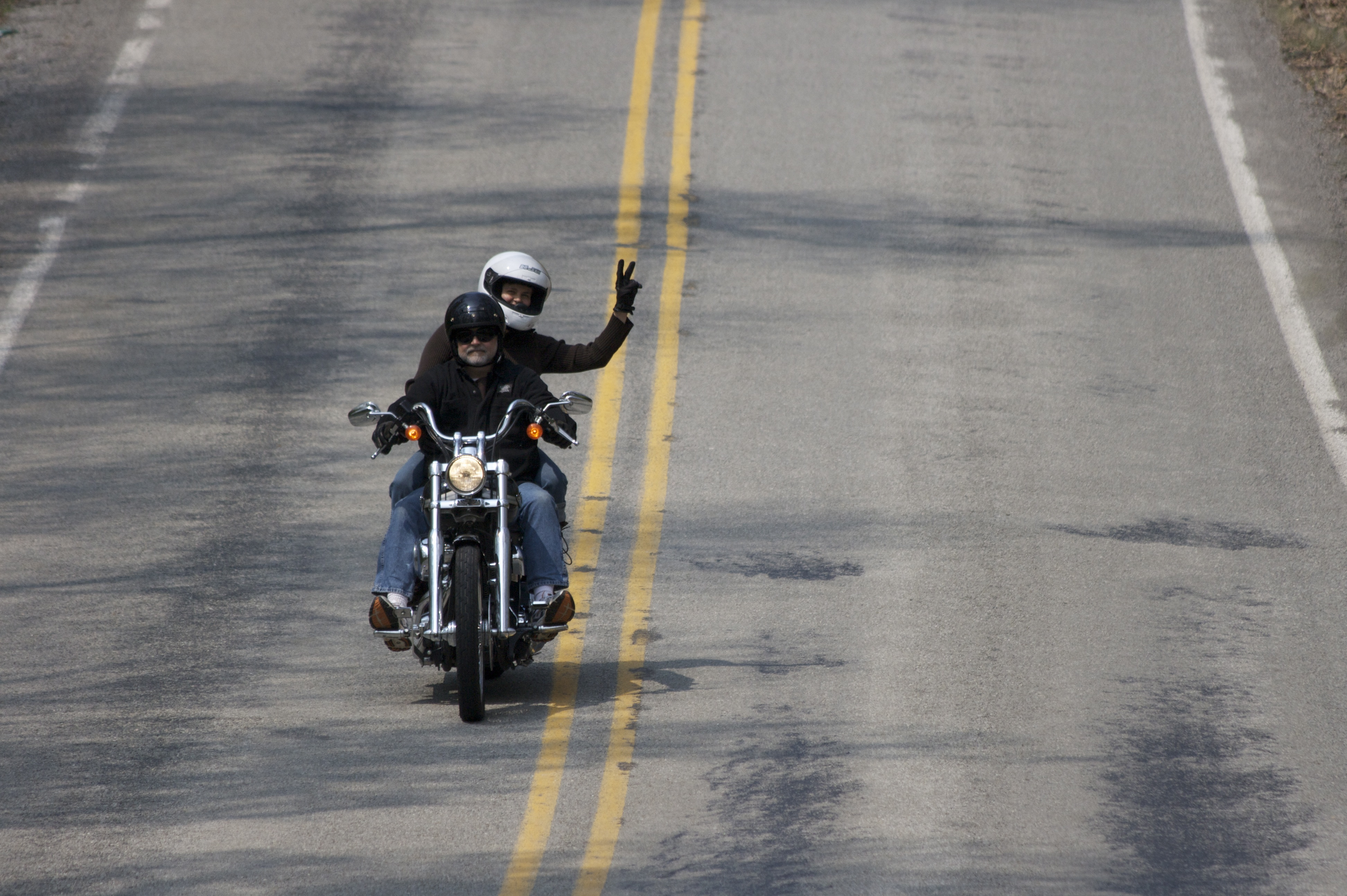 Waving from the Harley